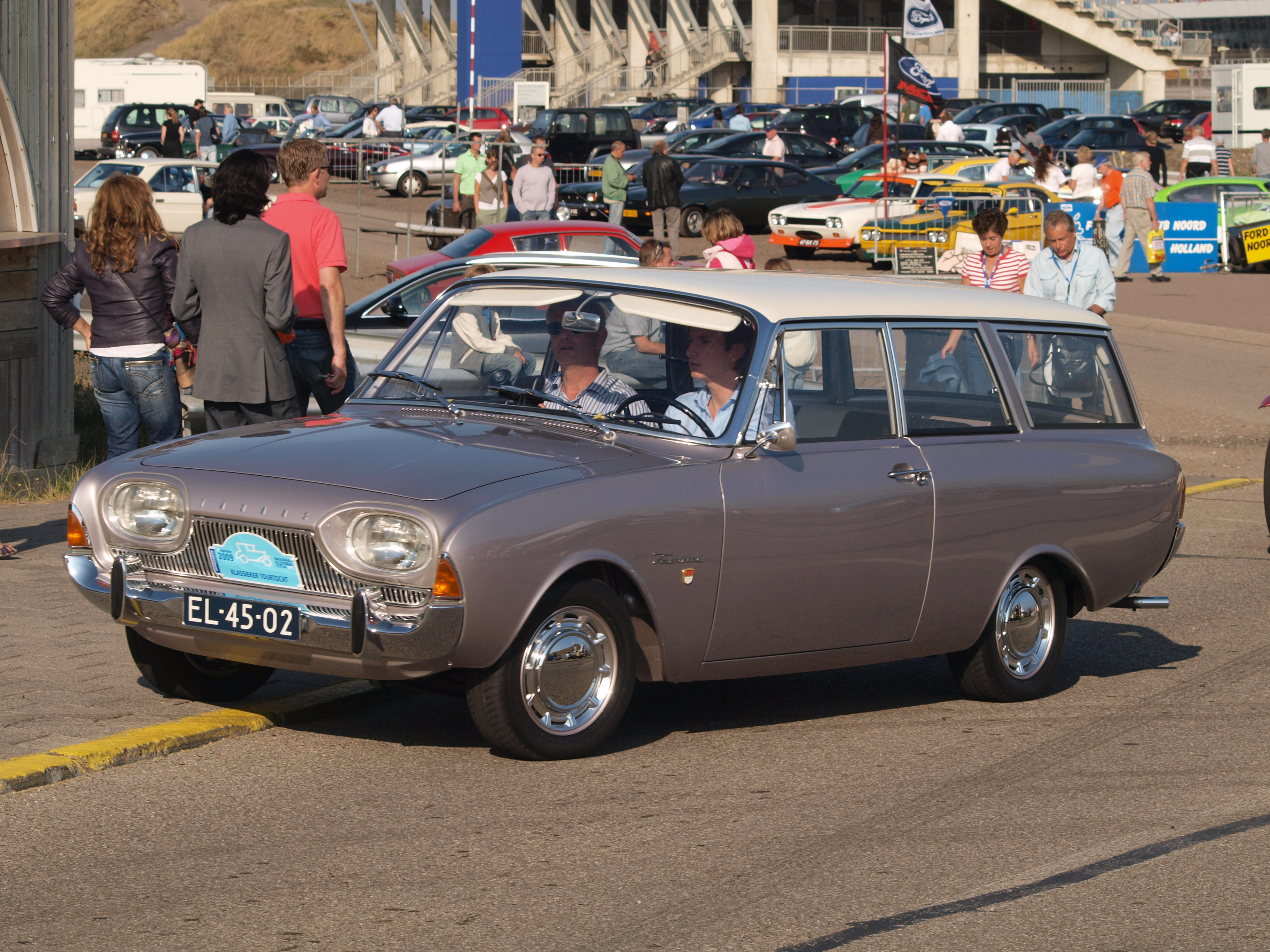 Photographed at the Nationaal Oldtimer Festival Zandvoort 2009, The Netherlands. OLYMPUS DIGITAL CAMERA